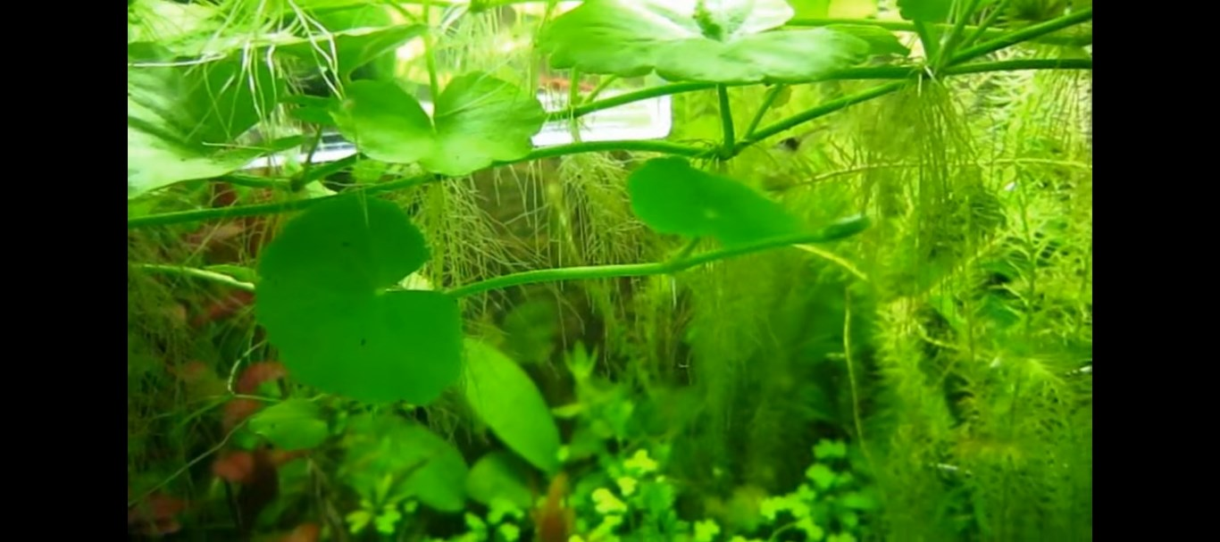 Hydrocotyle Leucocephala submerged in water